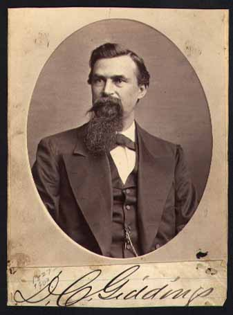 Albumin portrait of US Congressman Dewitt Clinton (DC) Giddings.